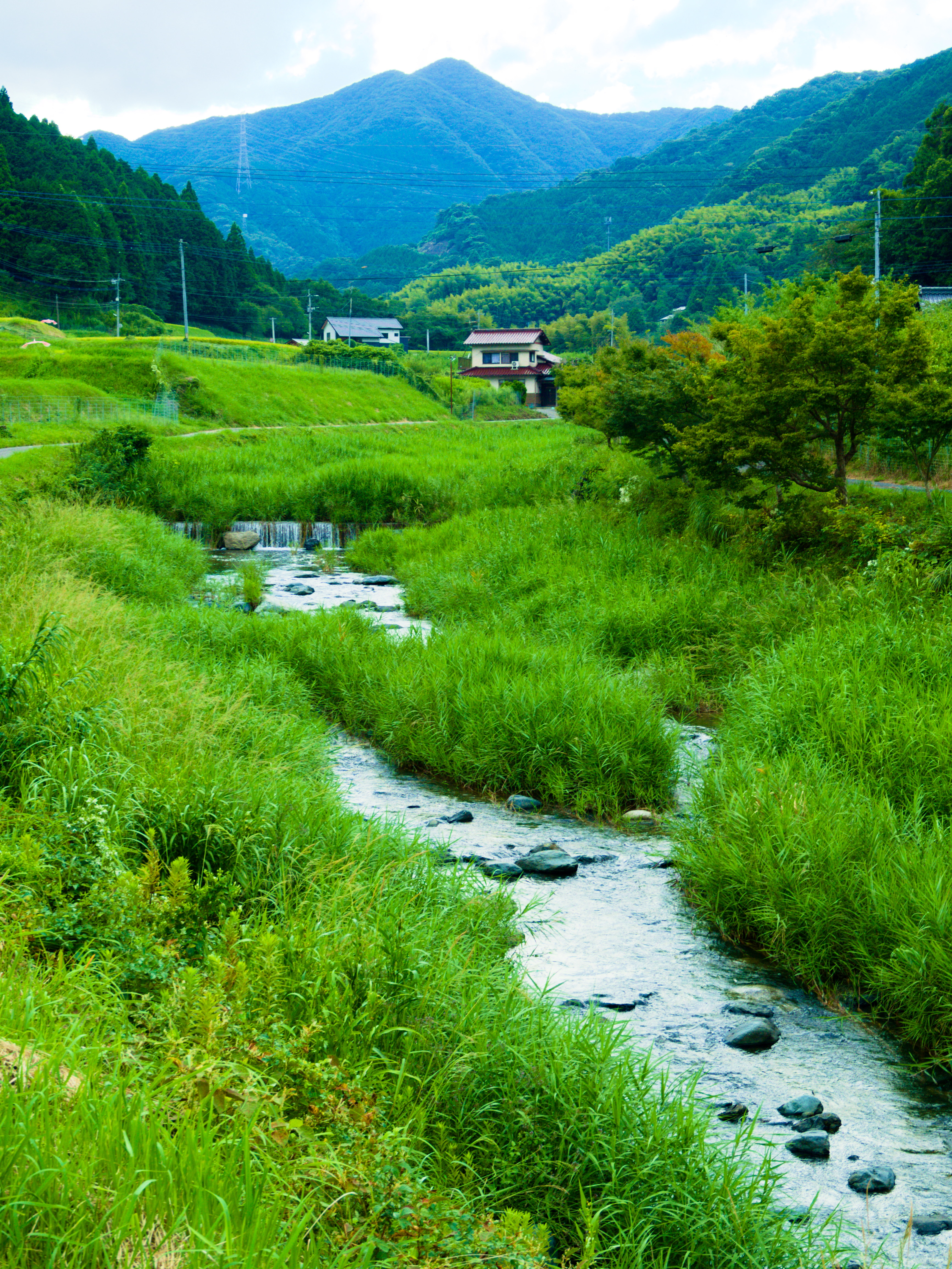 Inunaki River in Miyawaka City, Fukuoka Prefecrure, Japan